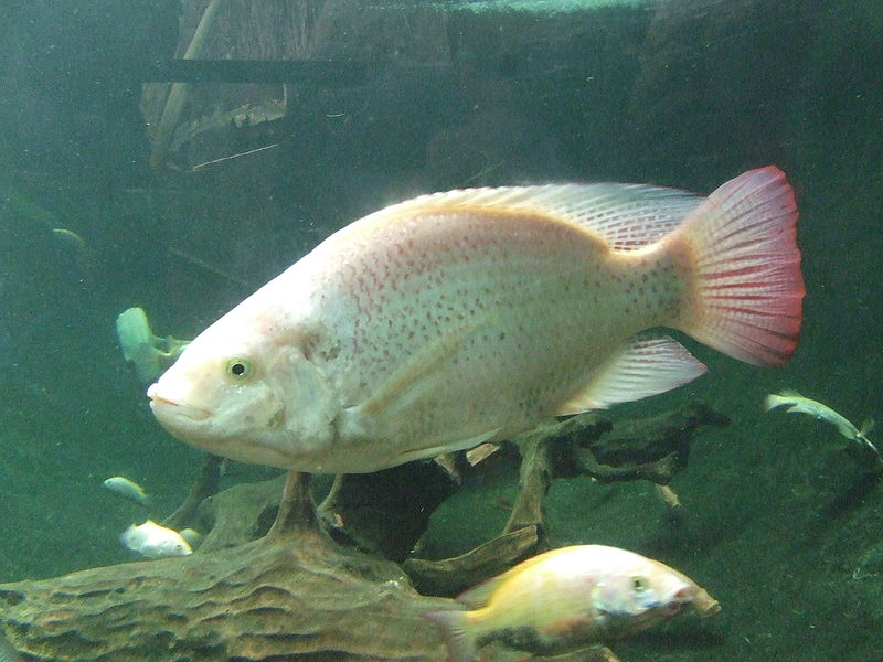 Oreochromis mossambicus at Barcelona Zoo (Catalonia, Spain).